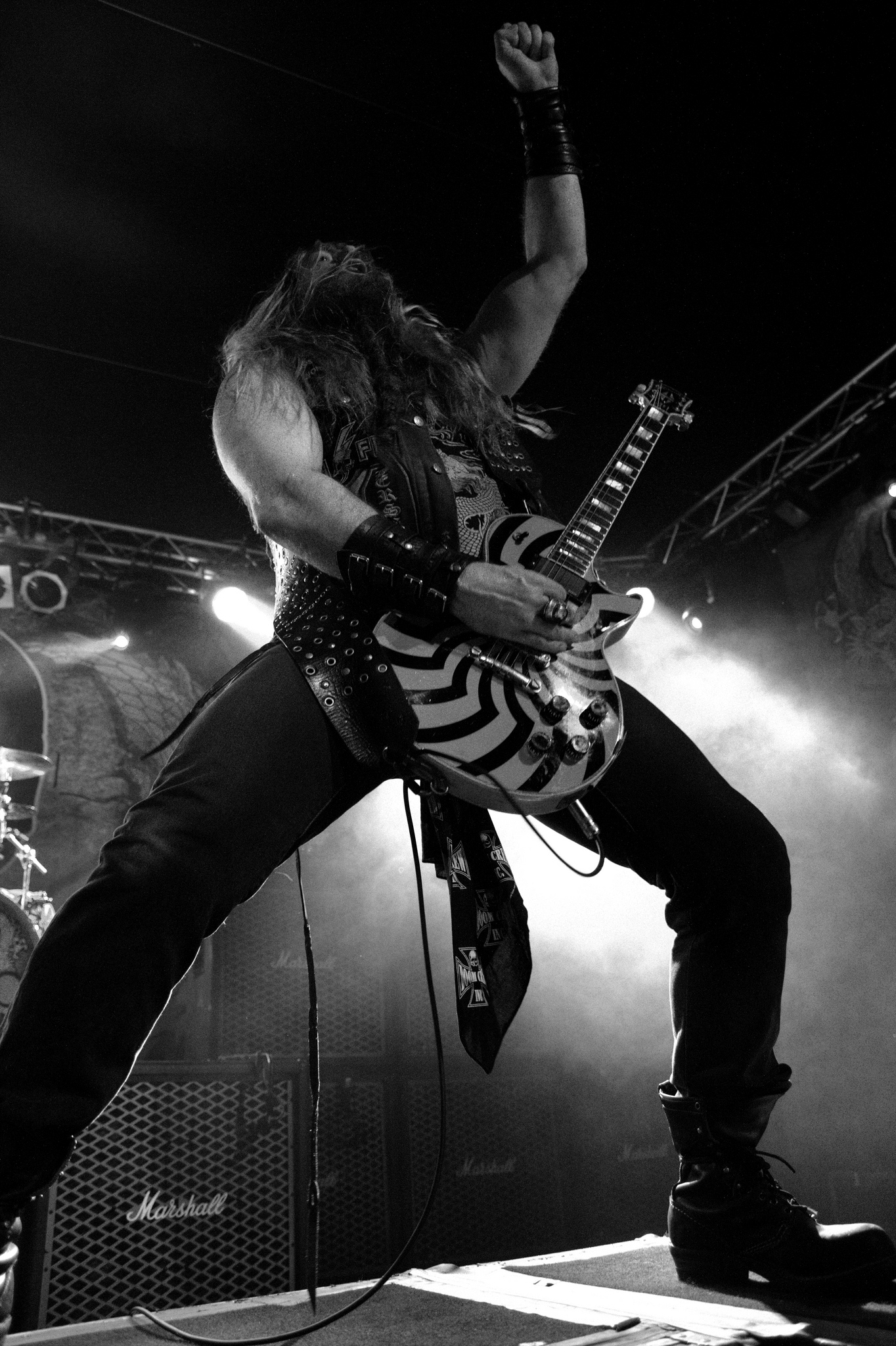 Zakk Wylde with his Black Label Society at Werk II Leipzig.